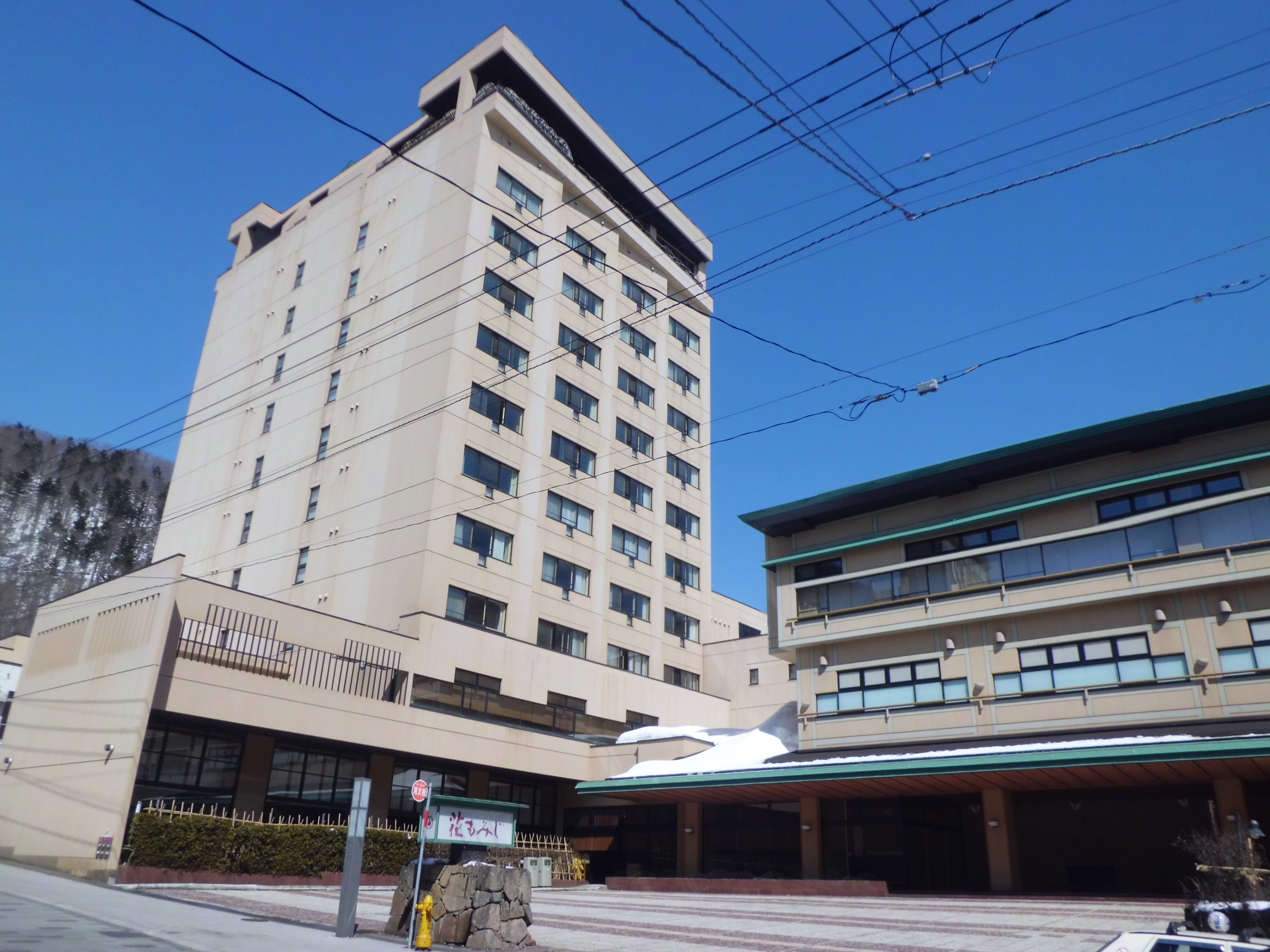 Hotel Hana-momiji